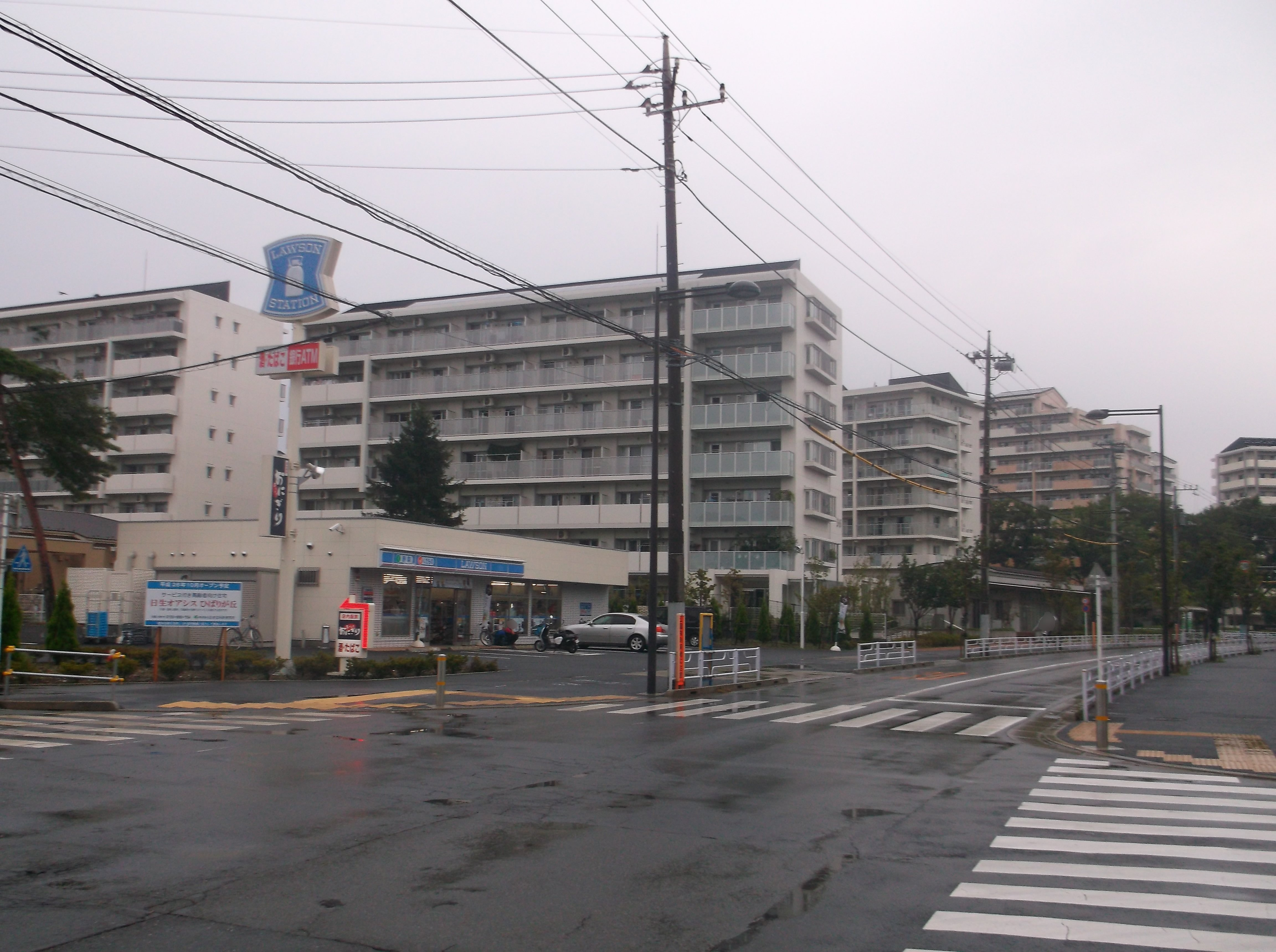 a photo of an overview of Hibarigaoka Apartment Complex(Danchi),Hibarigaoka,Nishitokyo city,Tokyo,Japan.